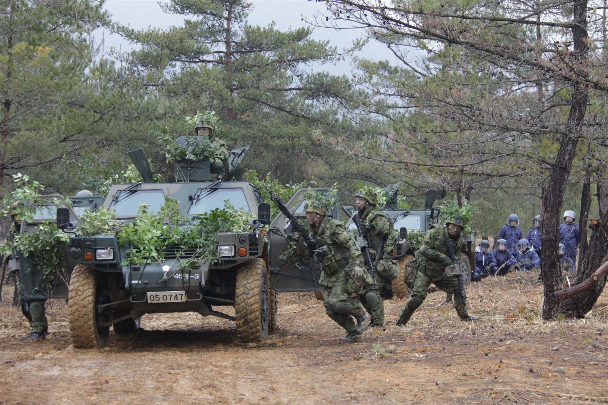 Title １３Ｂ：警察との共同訓練_R.JPG Album 教育訓練等 警察との共同訓練